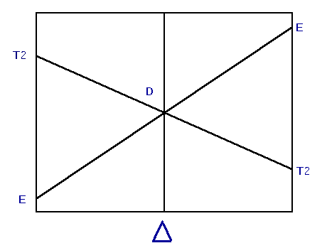 D Orgel Diagram